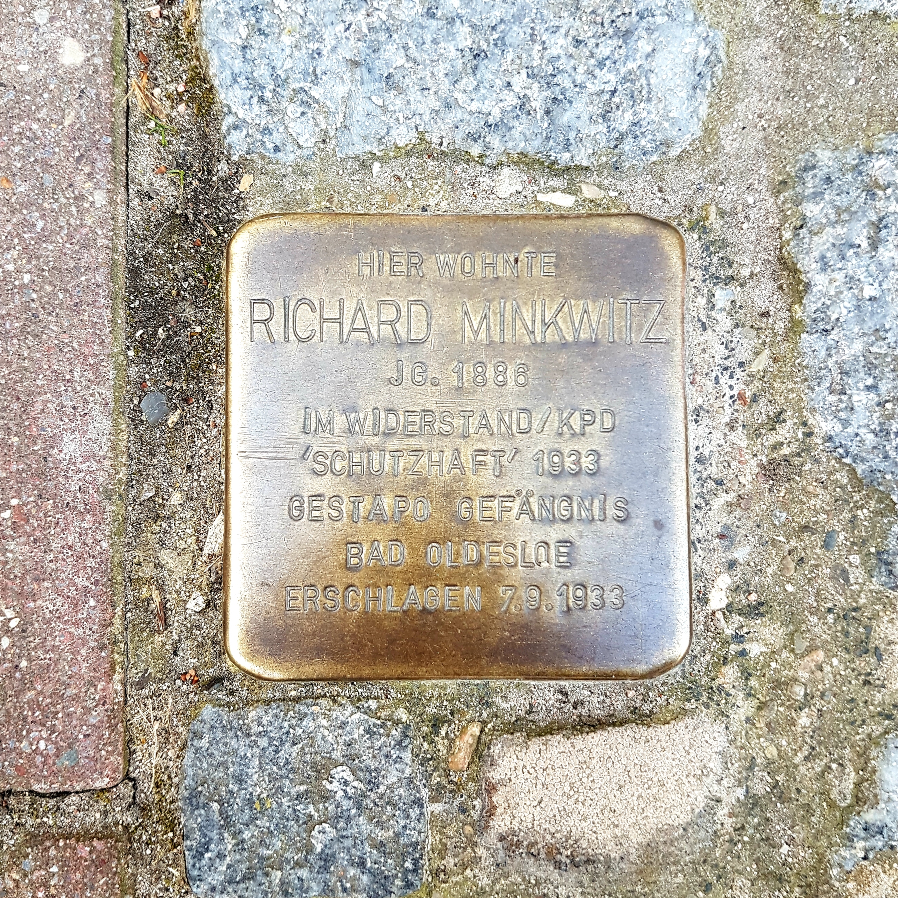 Stolperstein (stumbling block) in commemoration of Richard Minkwitz in Reinfeld (Holstein)